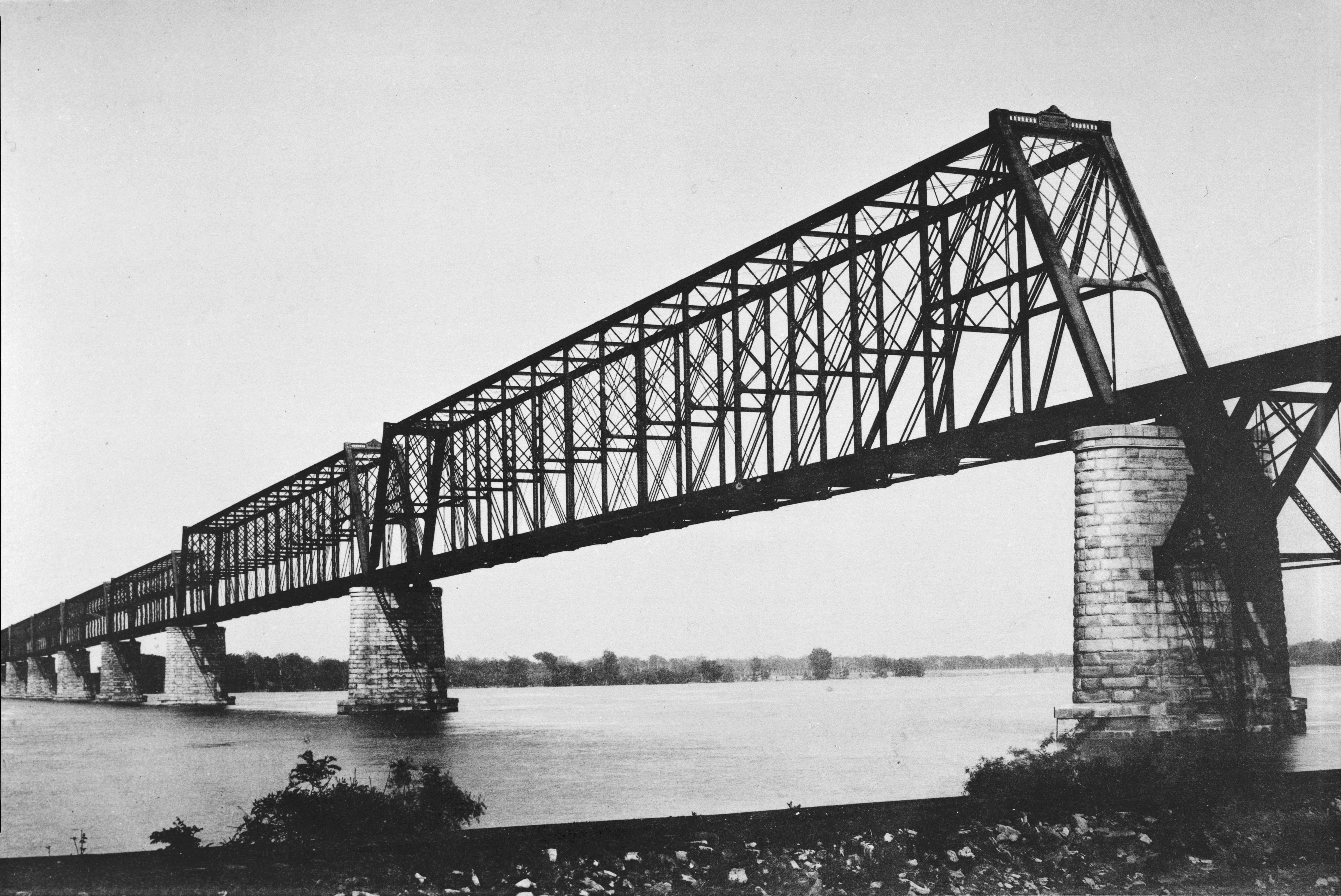 Cairo Bridge, Spanning Ohio River, Cairo, Pulaski County, IL. (1. Photocopy from George S. Morison's The Cairo Bridge, 1892. Photographer unknown, circa 1890. NORTH WEB AND WEST PORTAL OF BRIDGE HAER ILL,77-CAIRO,1-1)